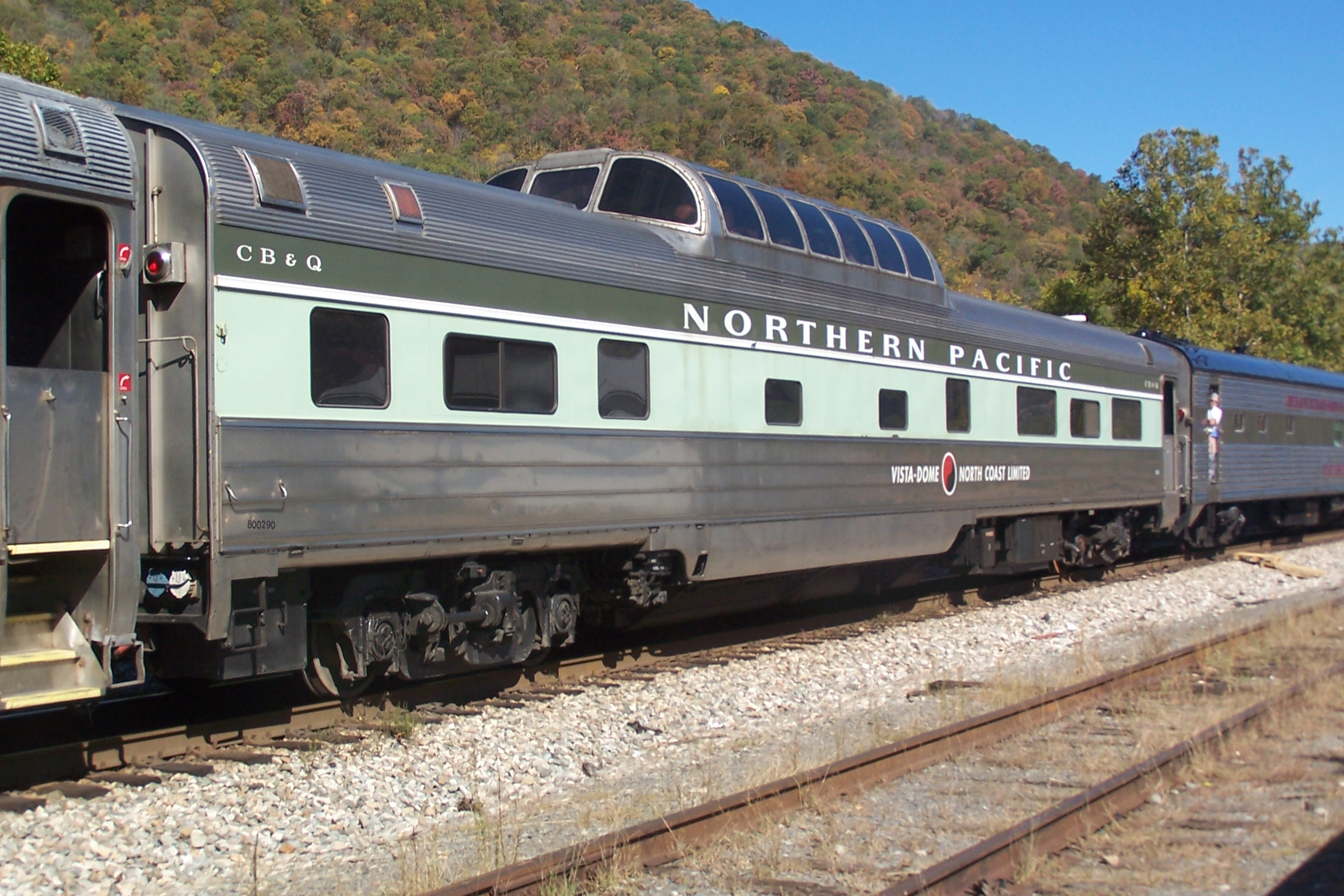 The Budd Company built unnamed #558 in 1954 for the CB&Q for use on the North Coast Limited. The Vista-Dome coach sat 46 in the lower level and accommodated 24 in non-revenue seating in the dome. There were many private cars on this year's New River Train. This shot was taken during the three hour layover in Hinton, WV on October 21st.